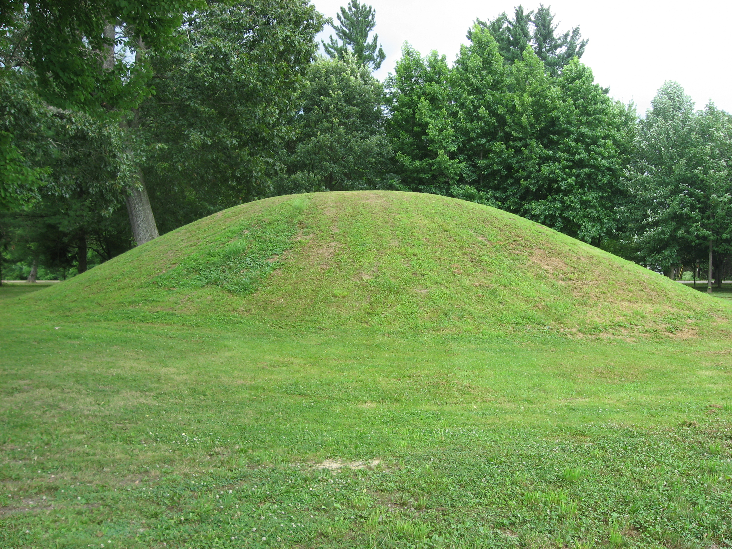 Southern side of the Ranger Station Mound, located in a village park off Broadway Street in Zaleski, Ohio, United States. Built by the prehistoric Adena culture, it is listed on the National Register of Historic Places.